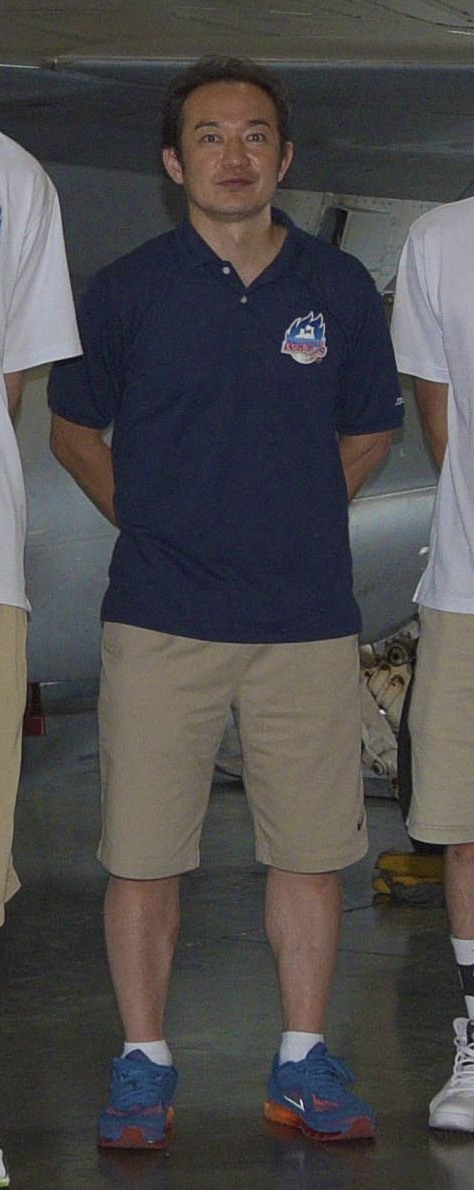 Aomori Wat's